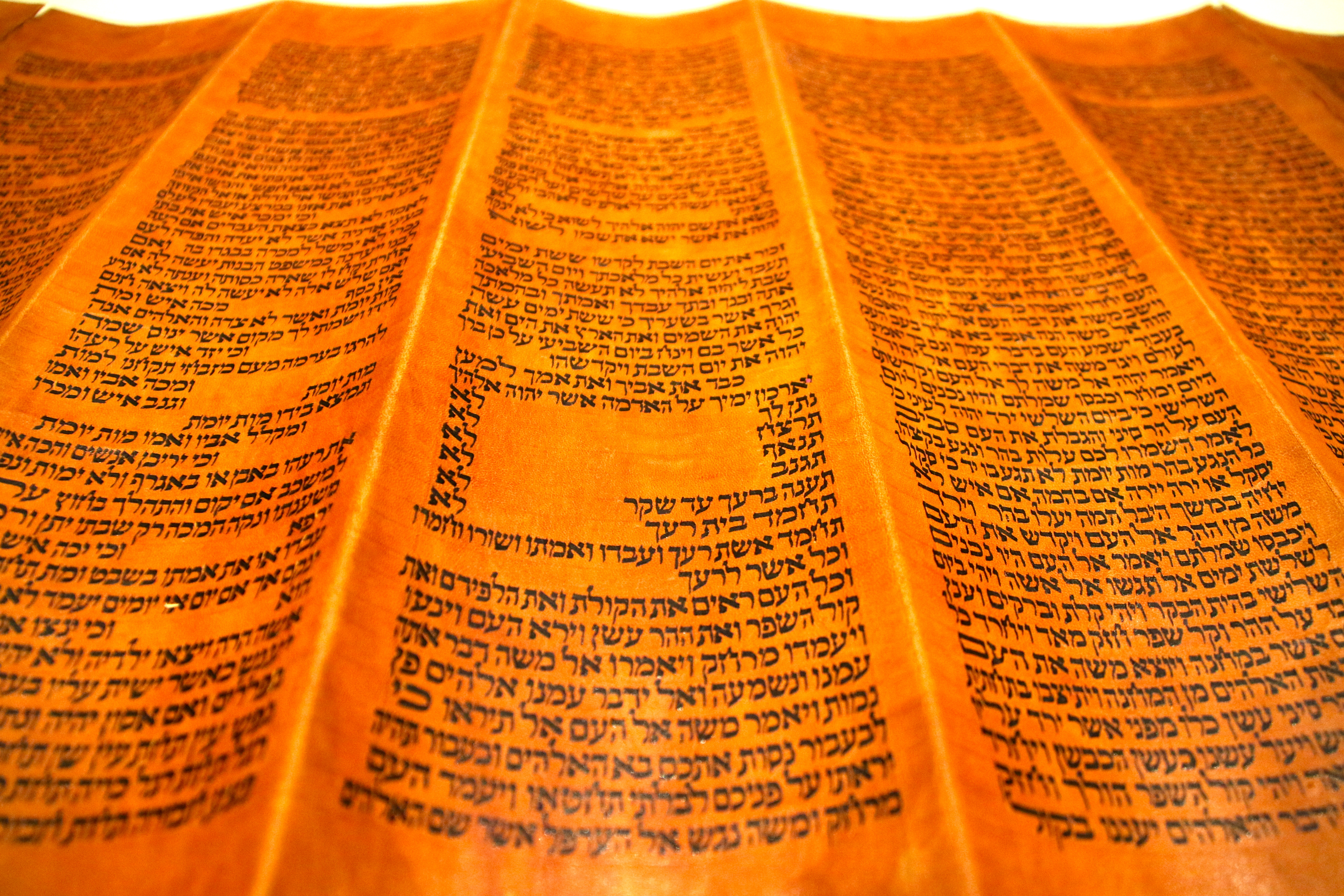 Torah Scroll in the TMS collection